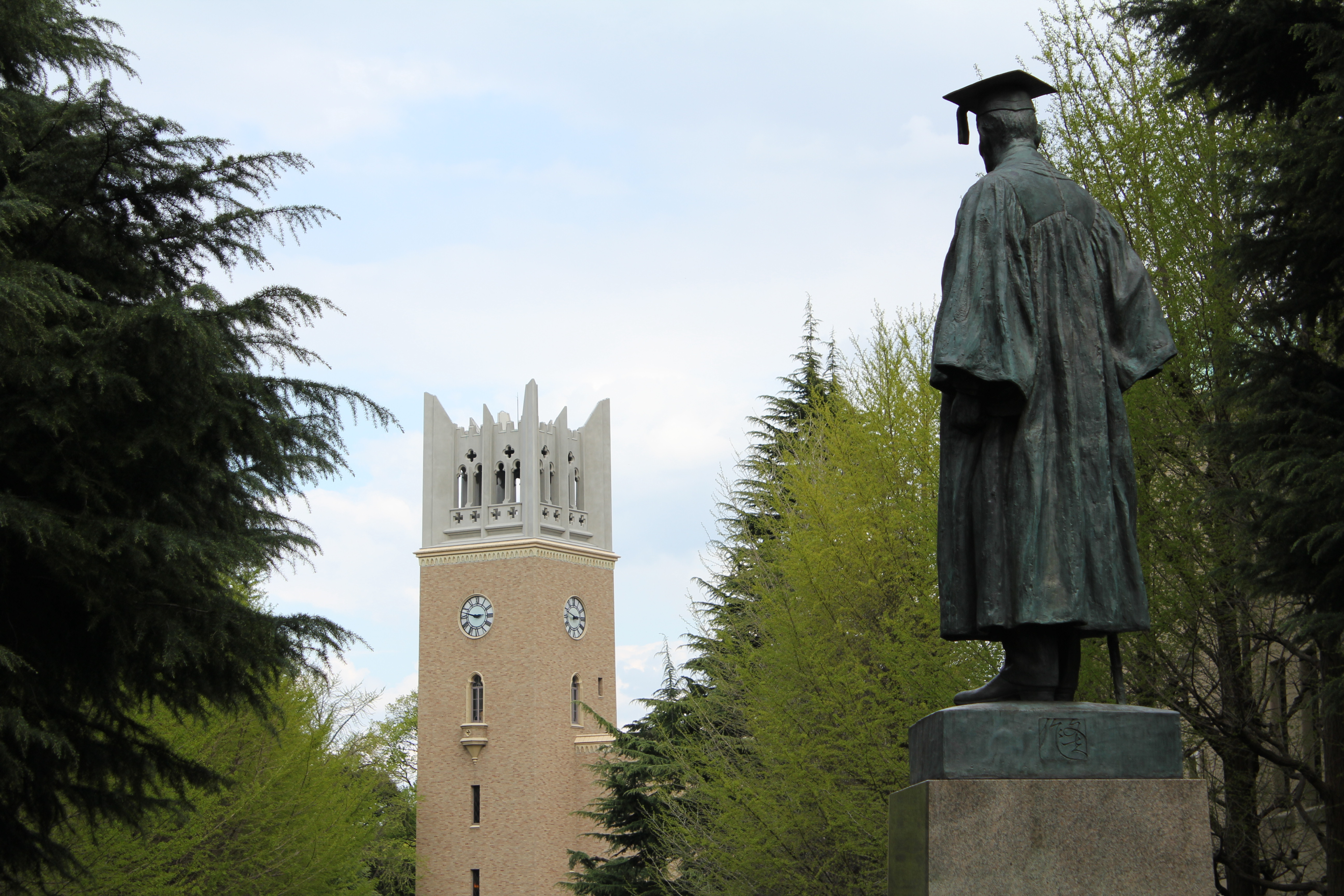 Okuma Statue (right) and Okuma auditorium (background) in Waseda University, Tokyo.